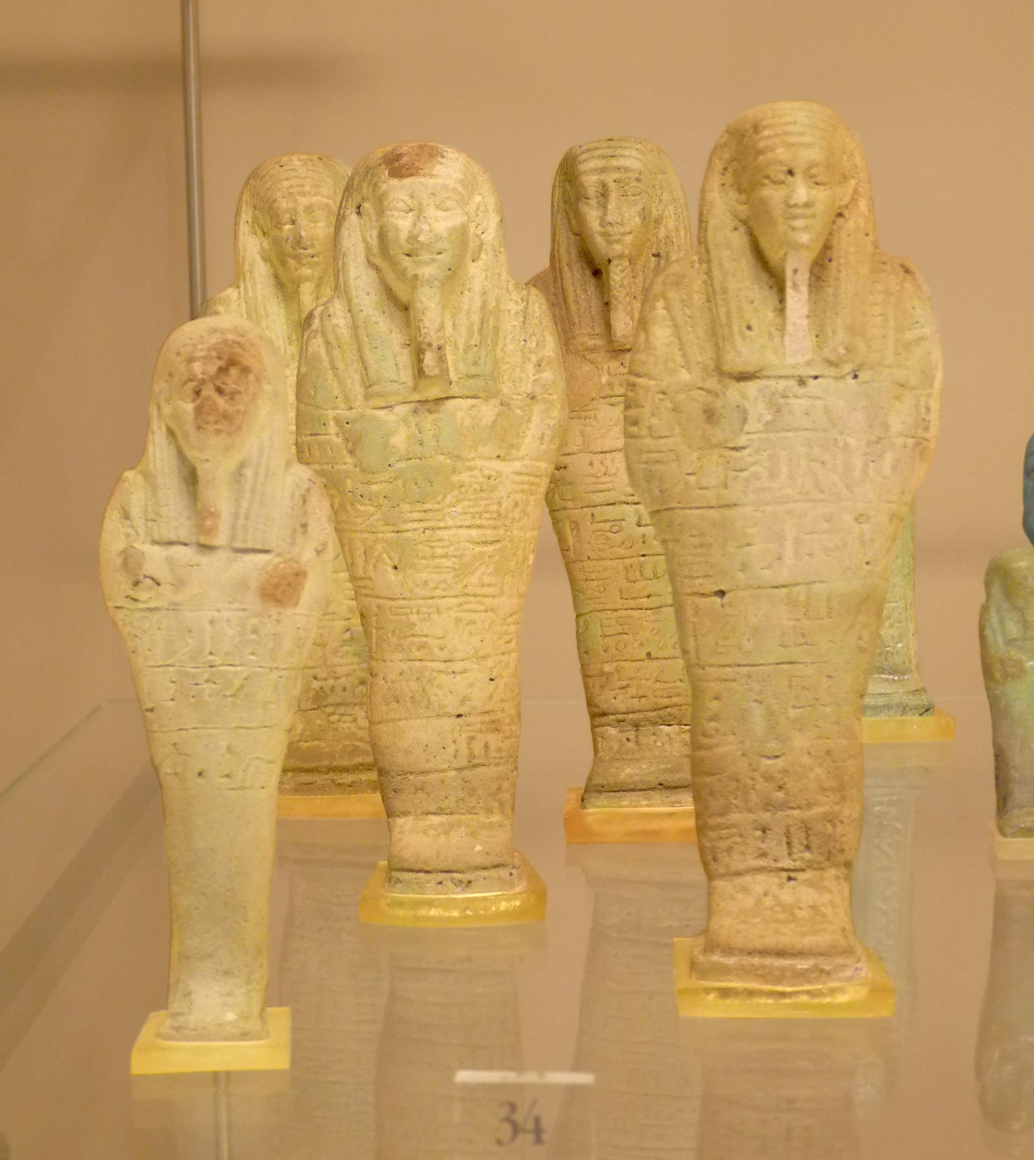 Five ushabti of Ankh-hapi, high priest in Memphis and Letopolis for the worship of Ptah, Osiris-Apis and the divinized pharaoh Snefru of the 4th dynasty. See here for more about him. Faience, from his tomb in Saqqara, Ptolemaic dynasty. Archeological Museum of Bologna (Italy), Palagi coll., EG 2192-95, 2198.